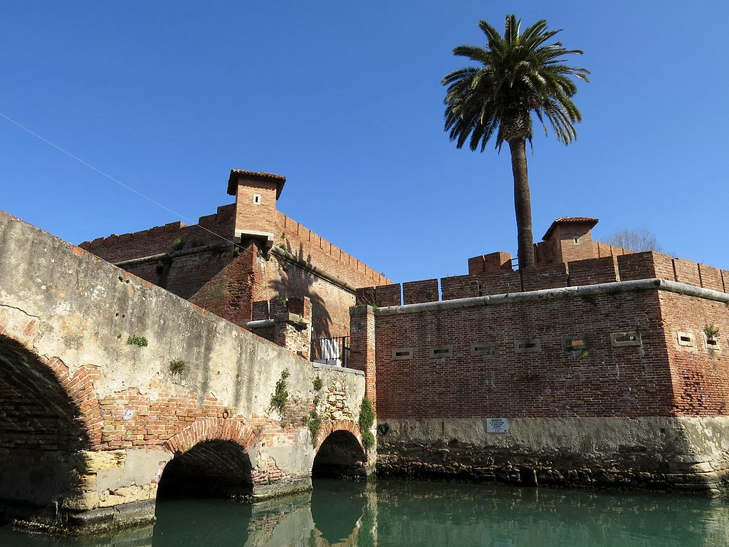 Fortezza Nuova (New Fortress) Livorno